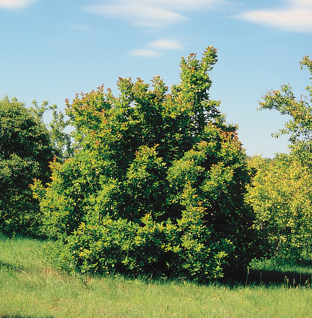 Tatarian Maple. Drawing.